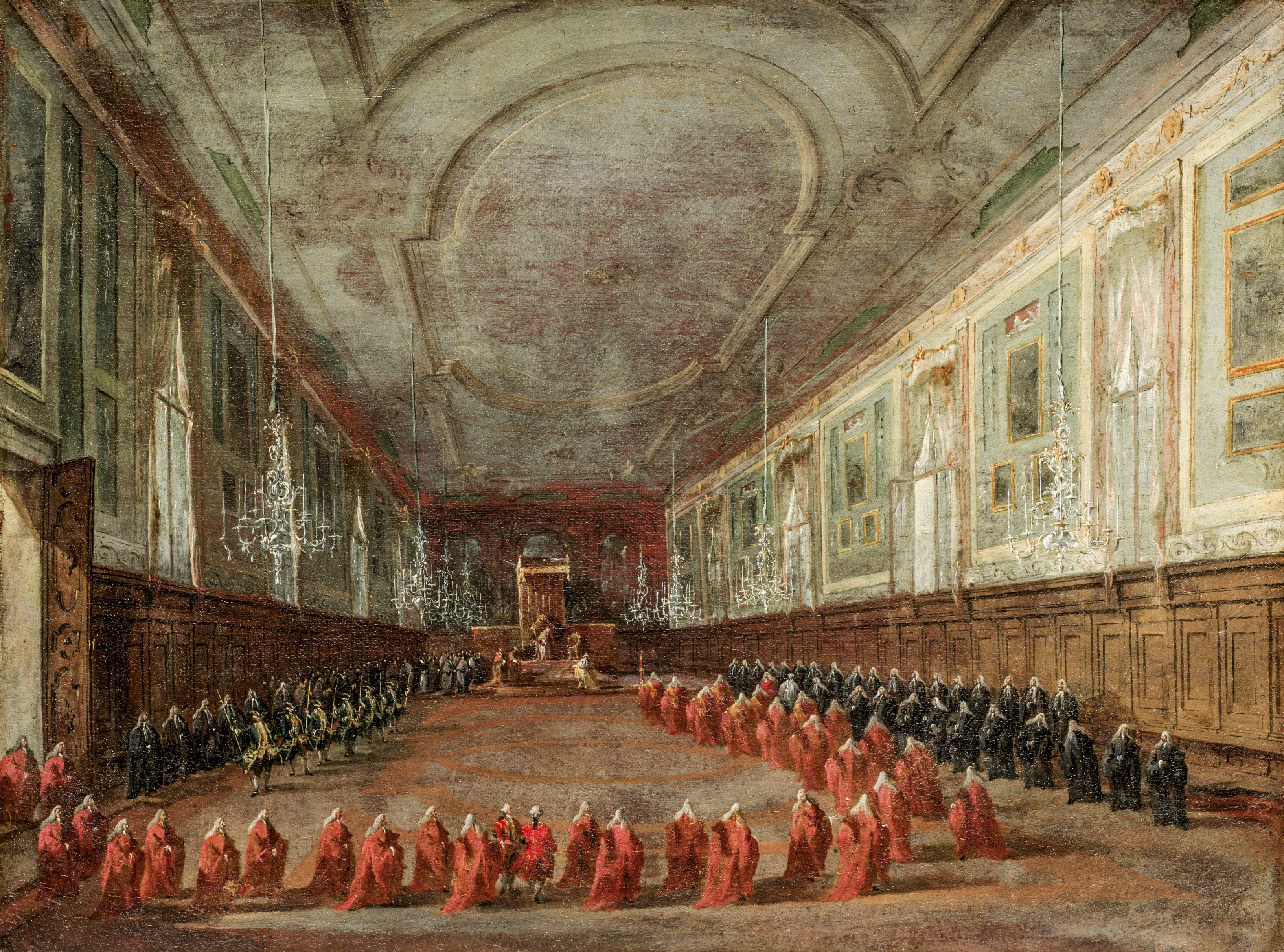 Pope Pius VI Descending the Throne to Take Leave of the Doge in the Hall of SS. Giovanni e Paolo